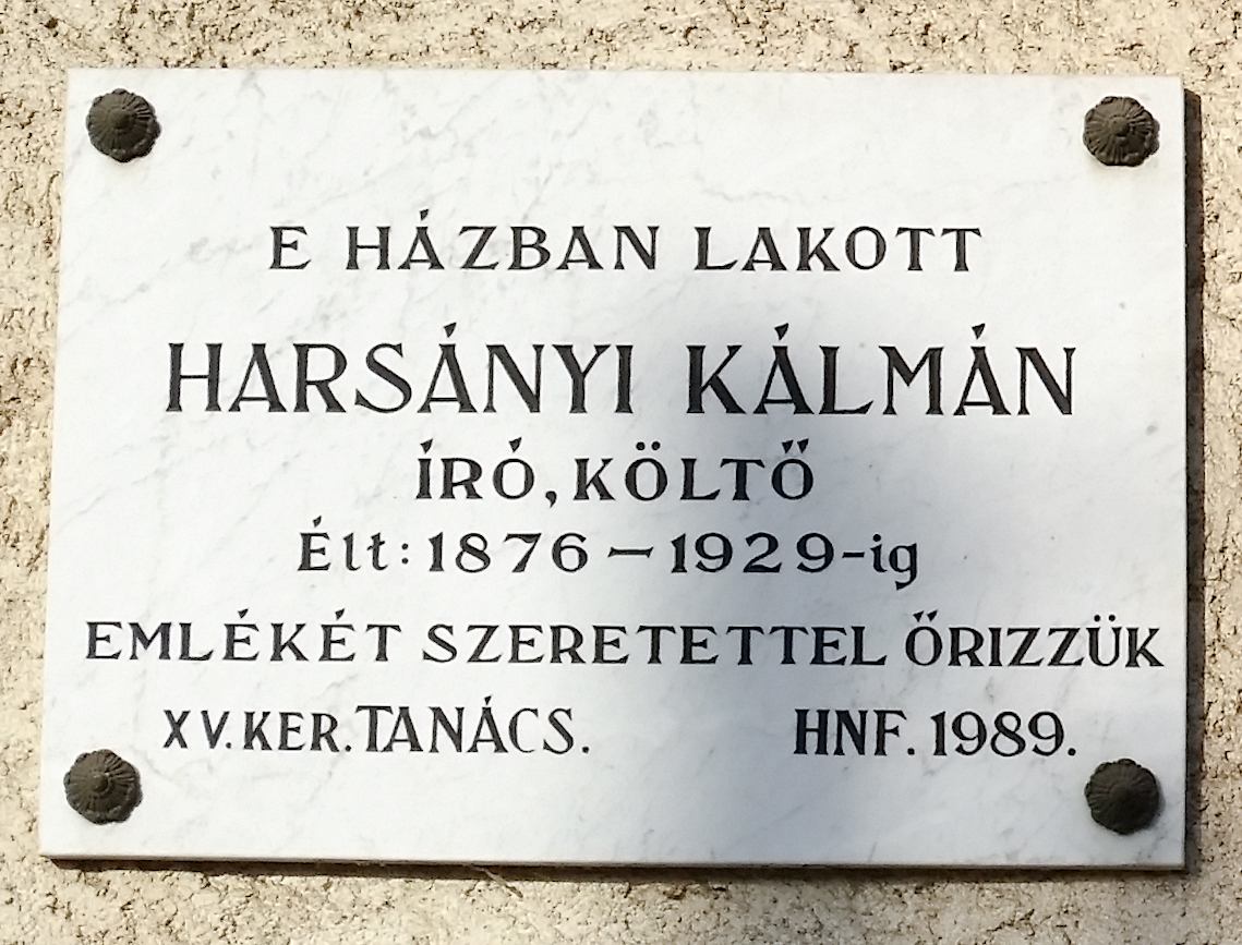 Memorial plaque of Kálmán Harsányi in Budapest